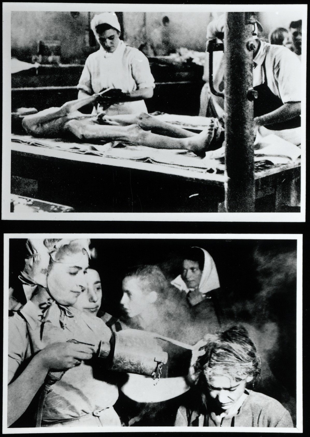 Photographs of the personnel involved with the aid to inmates of Belsen Concentration Camp ... including photographs of the inmates and treatment. Photographs: Delousing of internees and emaciated body in ward Archives & Manuscripts Keywords: Allen Percival Prior; Bergen-Belsen